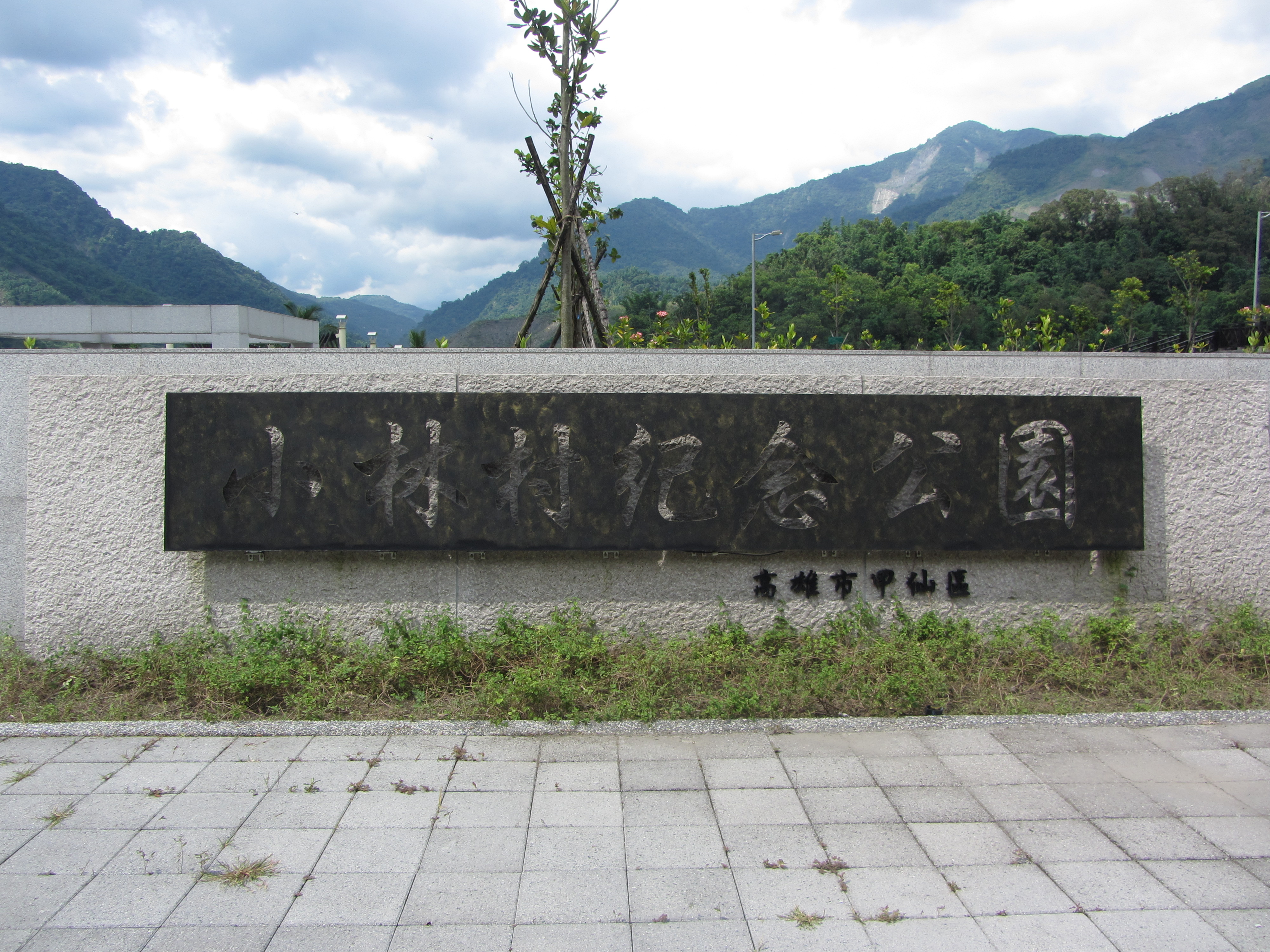 Xiaolin Village Memorial Park